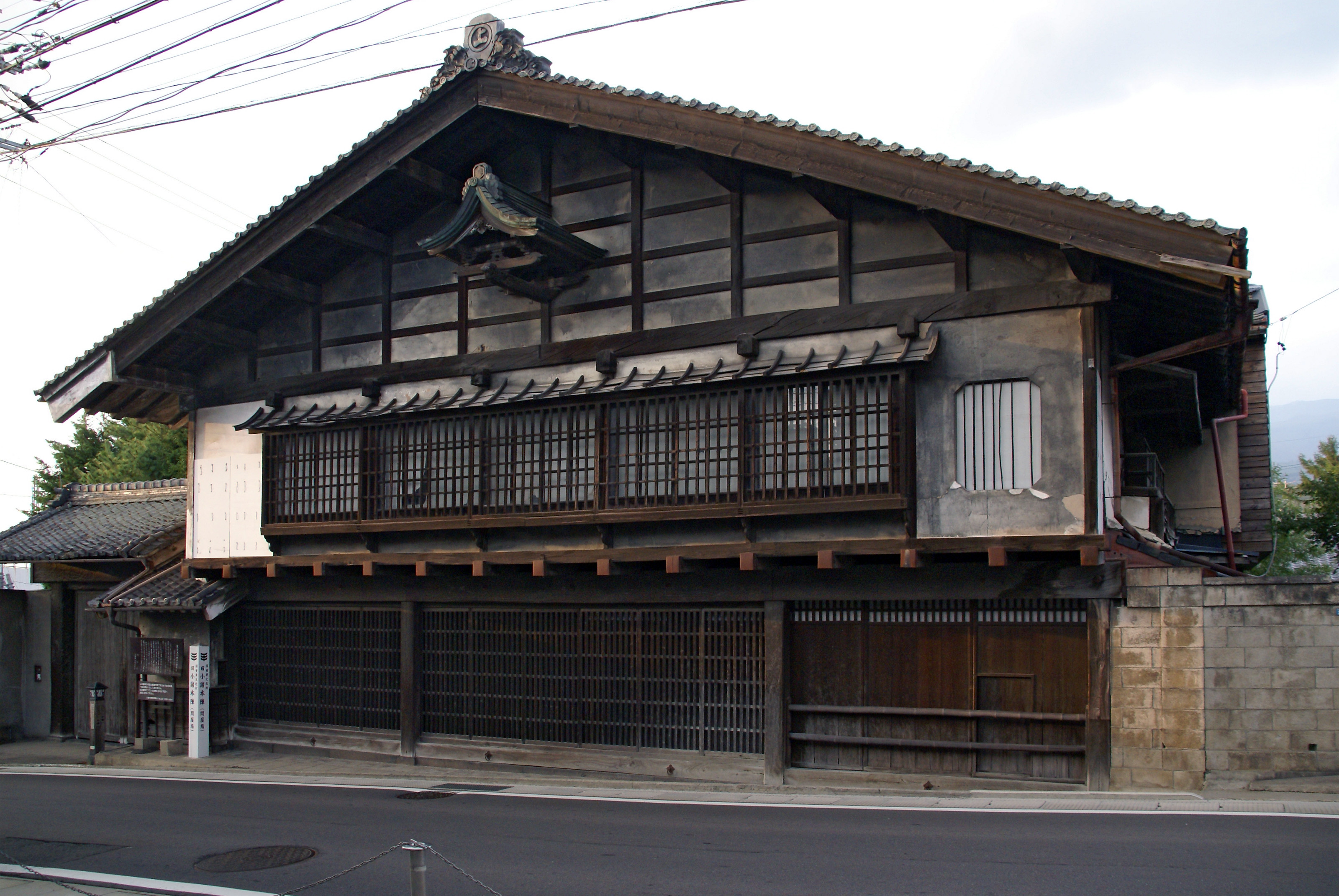 Old Komoro-honjin Toiyaba in Komoro, Nagano prefecture, Japan